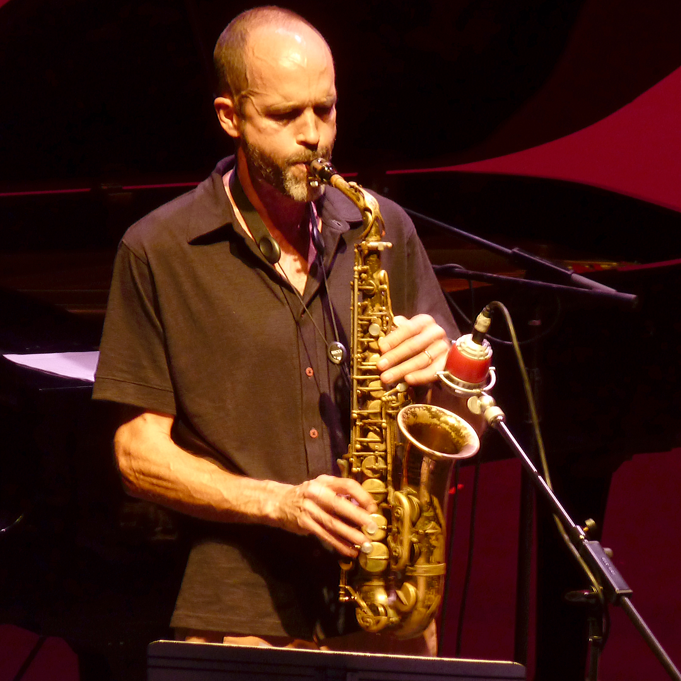 Rob Brown playing saxophone at the Abrons Arts Center, NYC. Vision Festival XV 23.6.10.